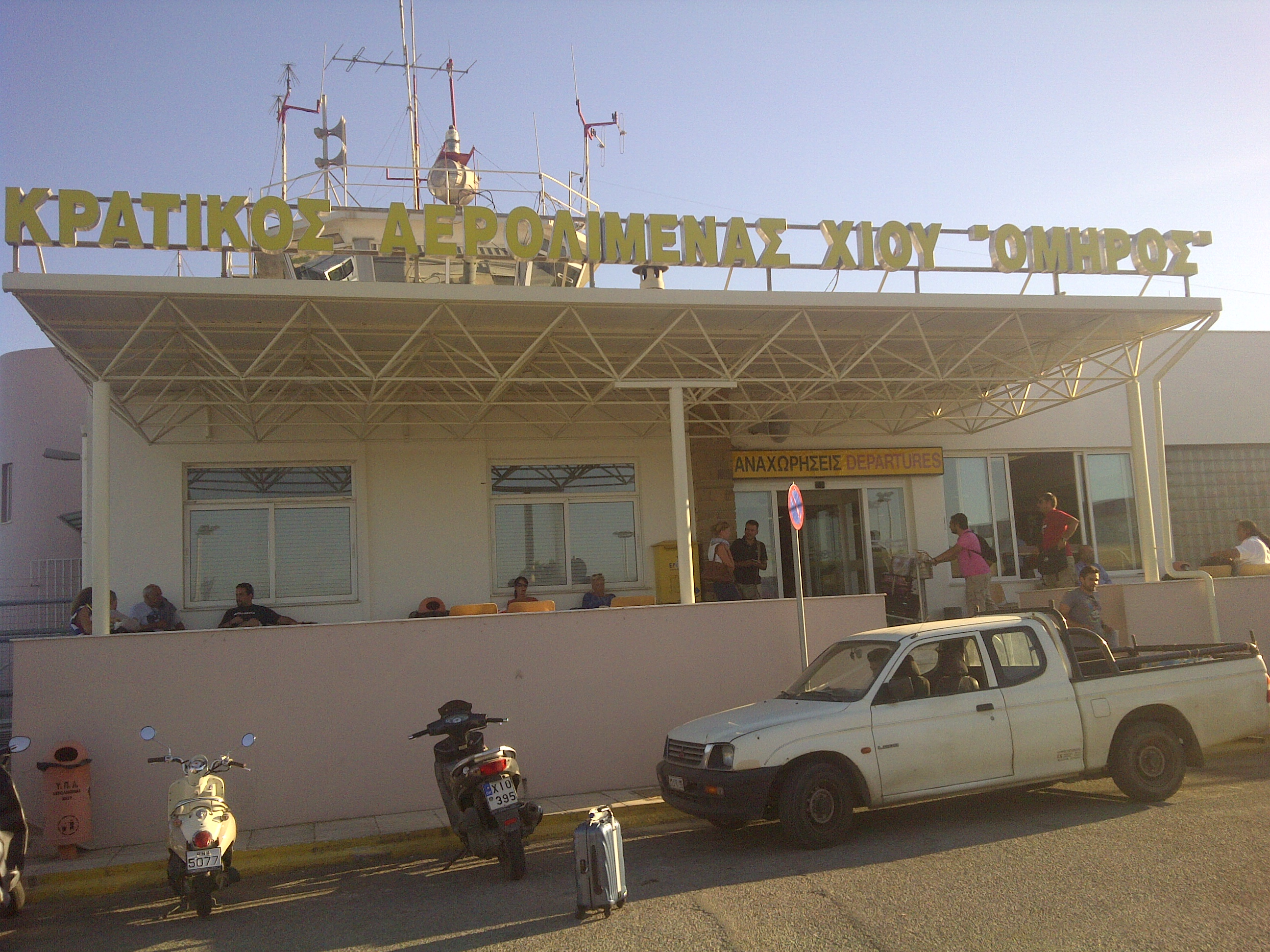 Chios International Airport Omiros